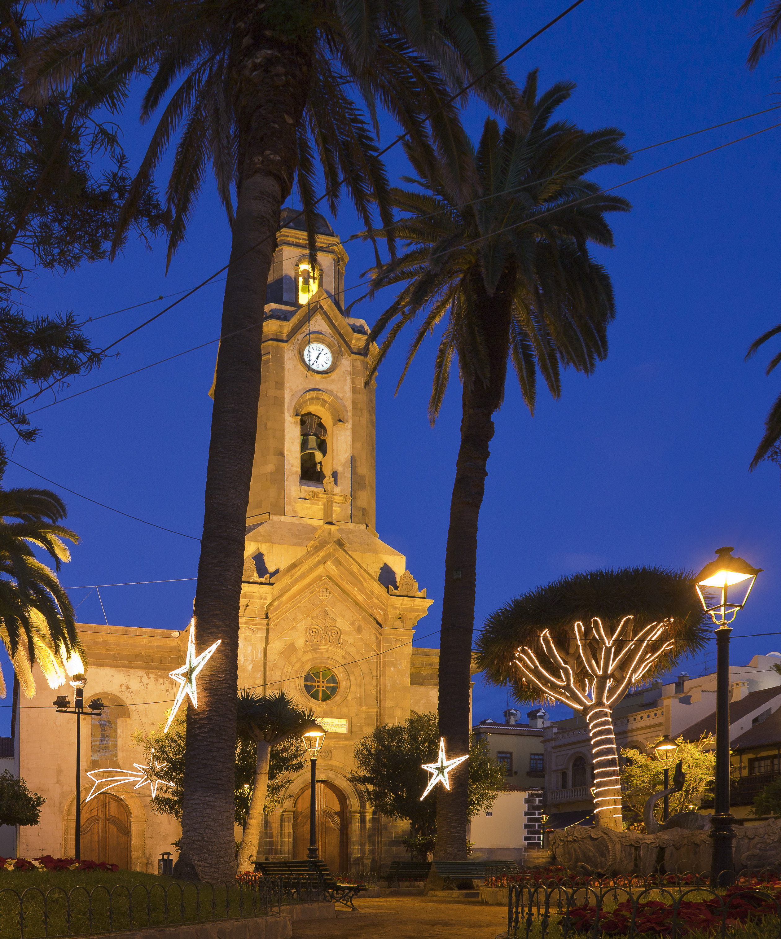 Church of Nuestra Señora de la Peña de Francia, Puerto de la Cruz, Tenerife, Spain